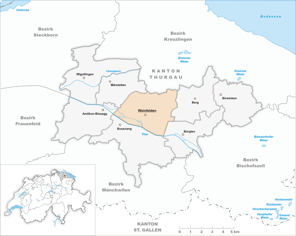 Municipality Weinfelden